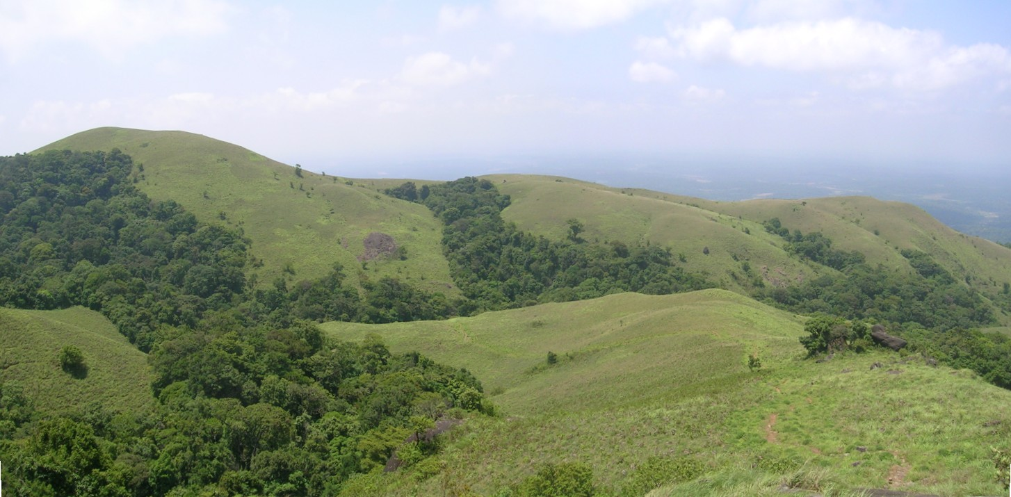 Sholas and grassland in the Brahmagiris, Coorg . Wooded bands act as ecological corridors also protecting rivers and limiting erosion.